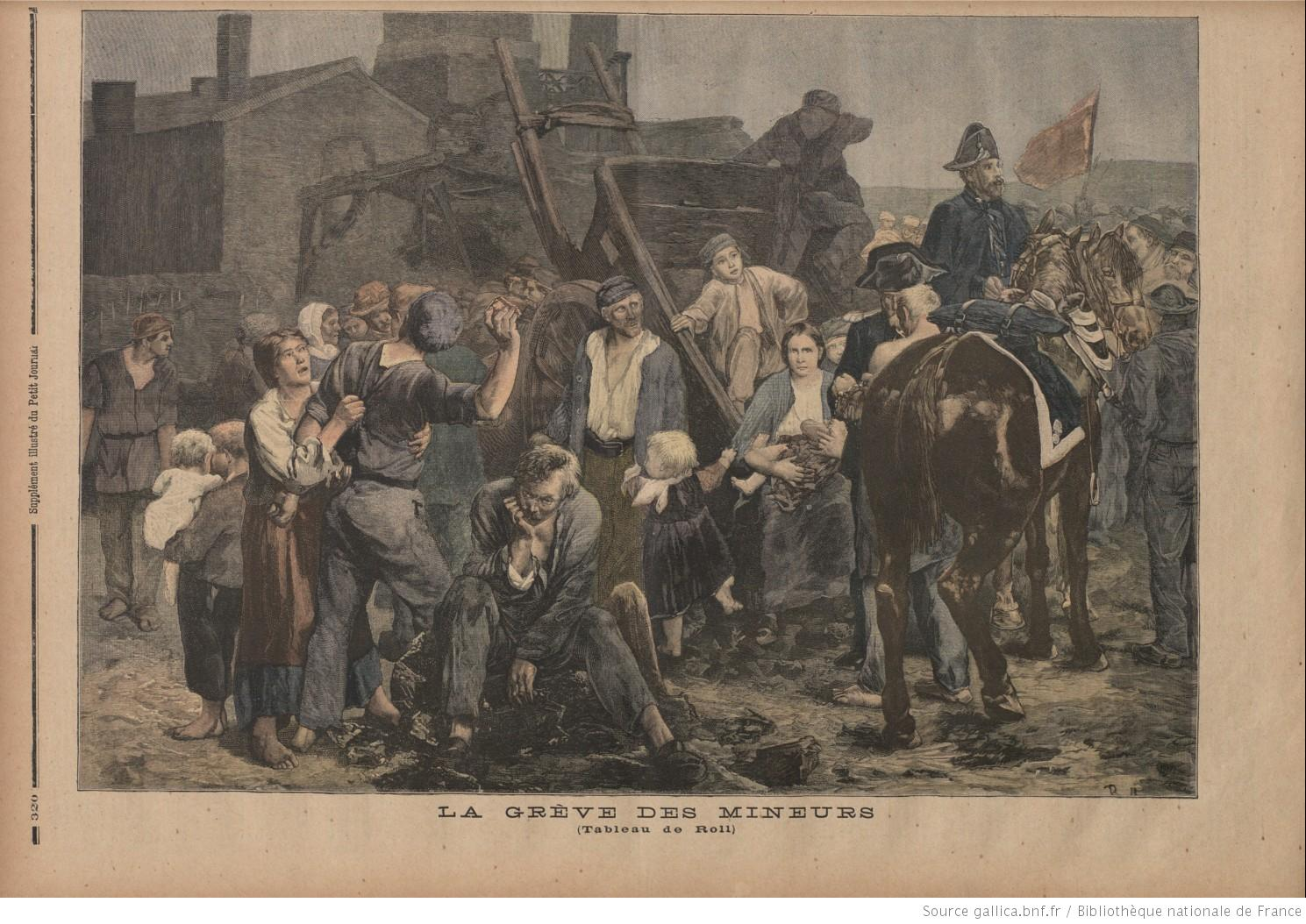 Painting by Roll, published in Le Petit Journal (sunday supplement) of the strikes in Carmaux.